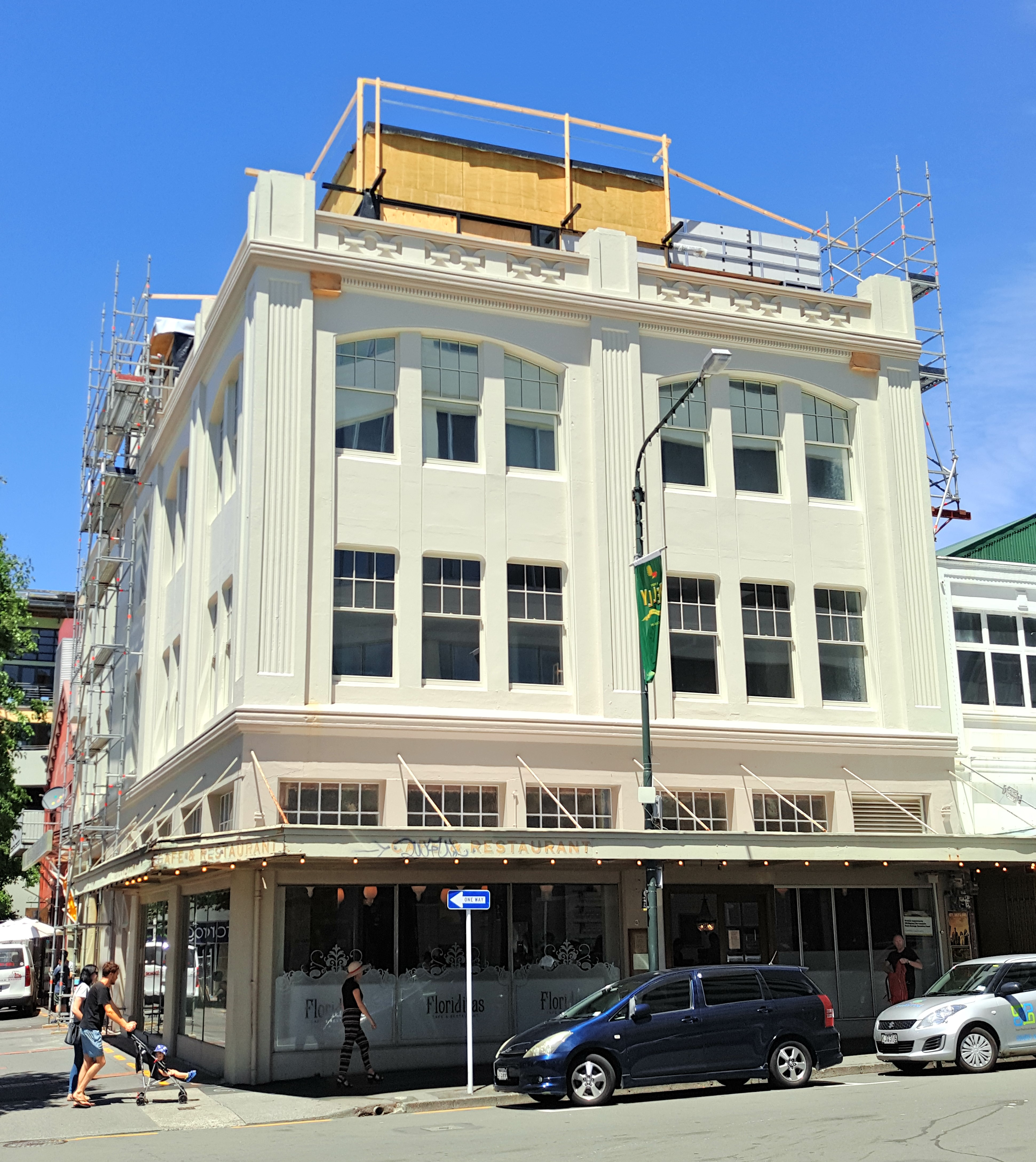 A building being renovated and earthquake strengthened on Cuba Street